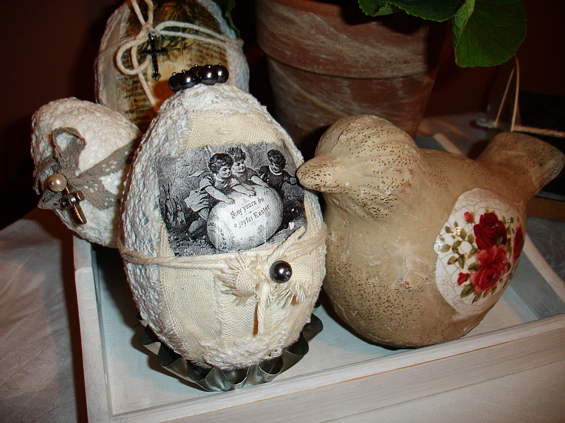 eggs easter